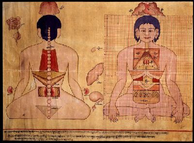 Illustration of the Blue Beryl Treatise by Sangye Gyamtso (1653-1705)